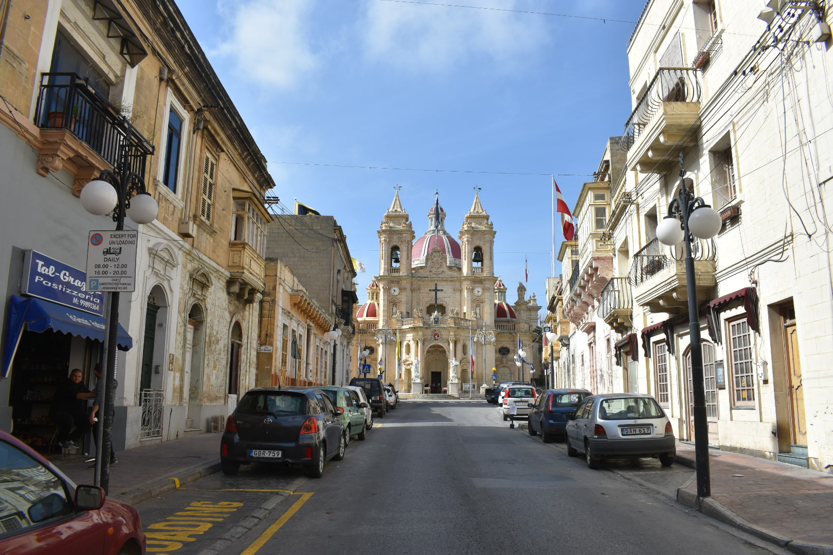 Żabbar